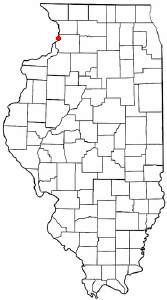 Category:Illinois city locator maps